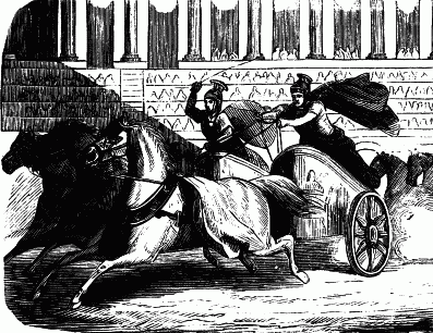 Chariot Races